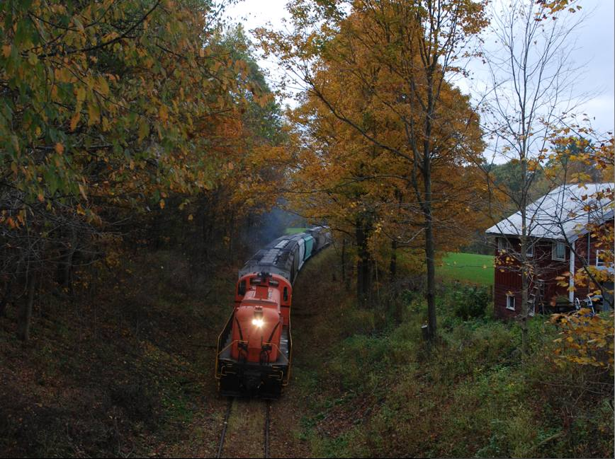 Southbound train on the Batten Kill Railroad approaching Old State Rd near Eagle Bridge, New York.